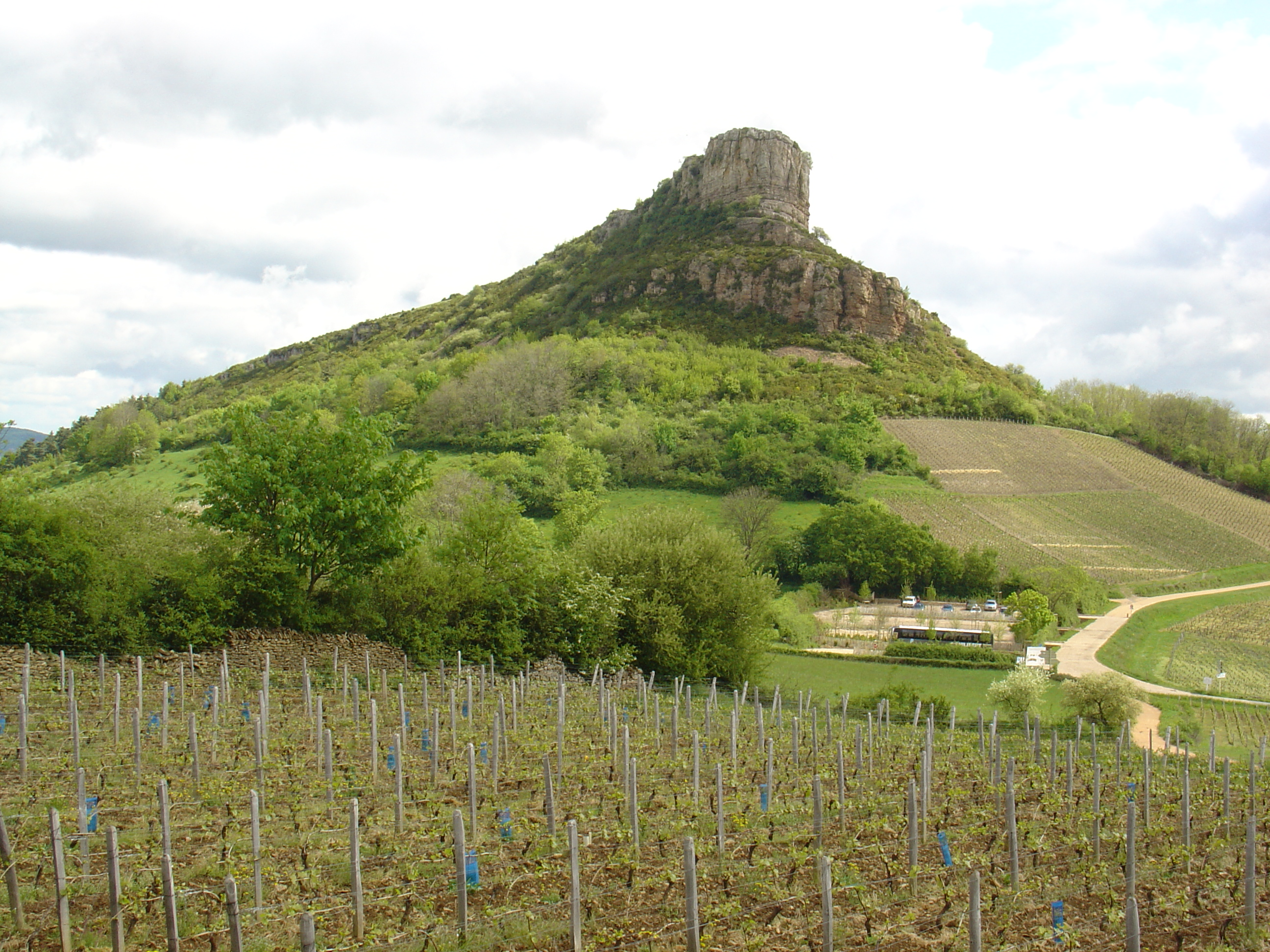 Solutré 's rock from the vineyard - Solutré-Pouilly, France